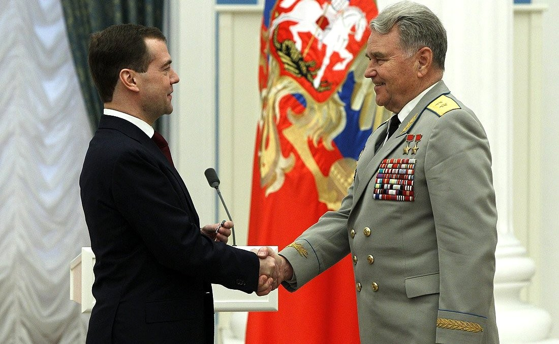 Member of the first squad of cosmonauts Vladimir Shatalov was awarded the Order of Friendship.